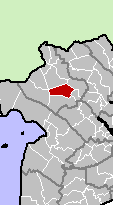 Chau Thanh District, An Giang Province, Vietnam.